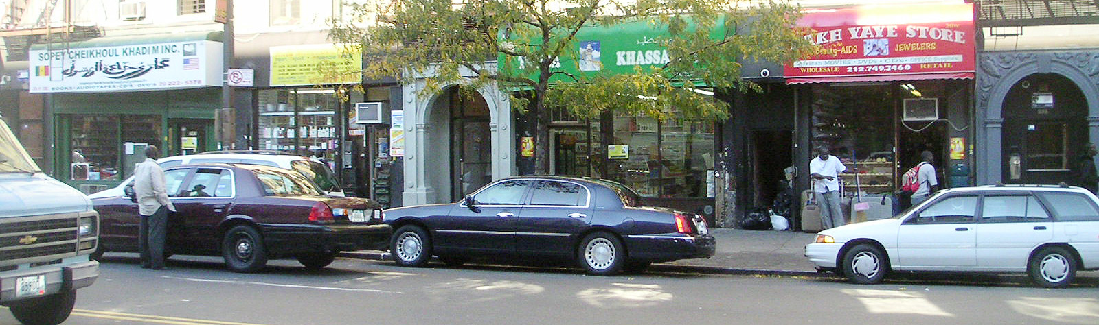 116th Street in Harlem, New York City. Showing some of the West African and Senegalese shops in Central Harlem, a neighborhood with many West African immigrants and sometimes called Little Senegal, especially relating to restaurants and groceries.